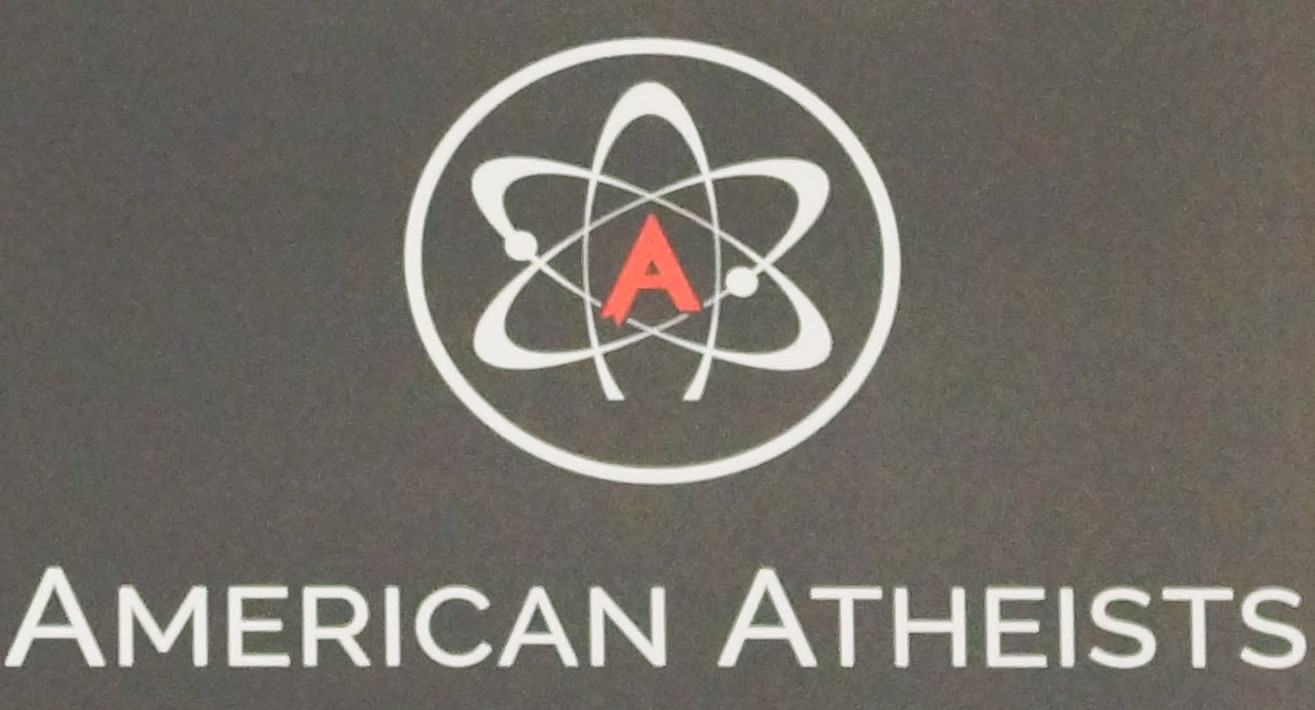 Tight crop of Mandisa Lateefah Thomas, President of Black Nonbelievers, speaking at the American Atheists Convention, held August 19-21, 2017 in North Charleston, SC.